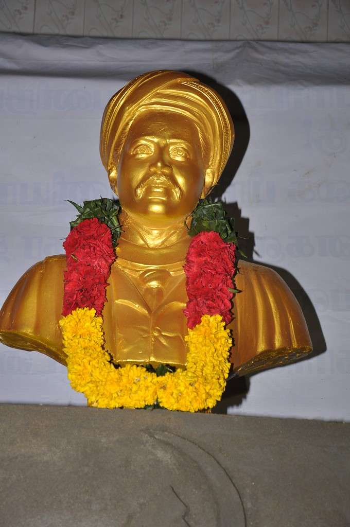 M.Singaravelu statue in Panuthimattan kuppam, Triplicane, Chennai